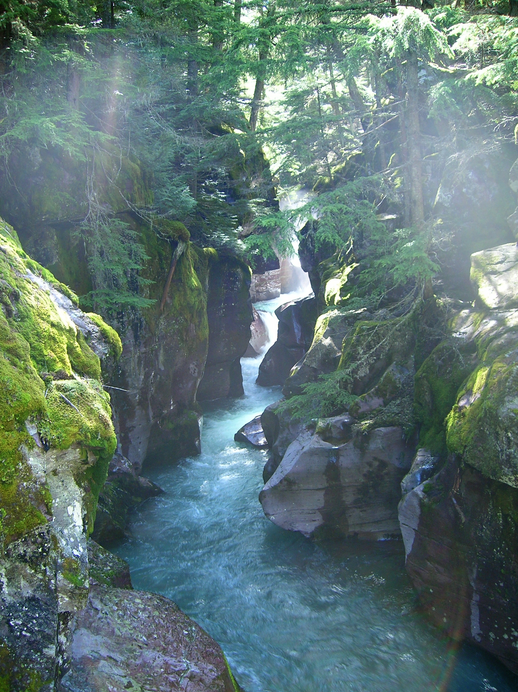 Avalanche Creek in Spring 2007 (Glacier National Park in Montana - USA)